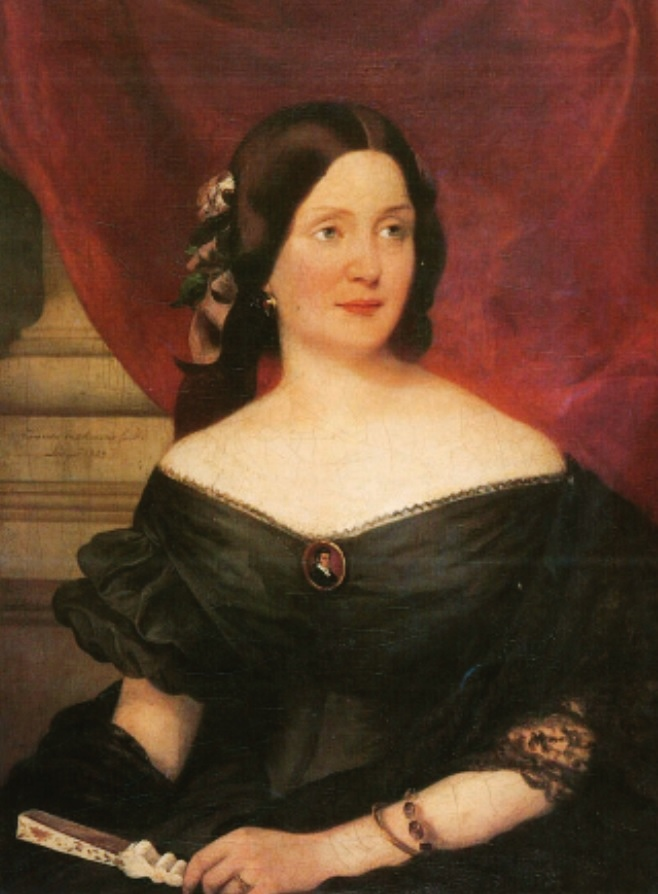 Portrait painting of the 1st Viscountess of Meneses, Elisa Eugénia Edwards de Desanges, by her son, the 2nd Viscount of Meneses.